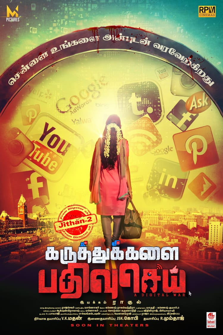 Karuthukalai pathivu sei an upcoming ,Woman awareness, Tamil language, Thriller films, Directed by Rahul paramahamsa. The film has SSR.Aryan grandson of late. SS. Rajendran and Upsana R.C in the lead role.It is the social awareness films based on the risks in today's media.